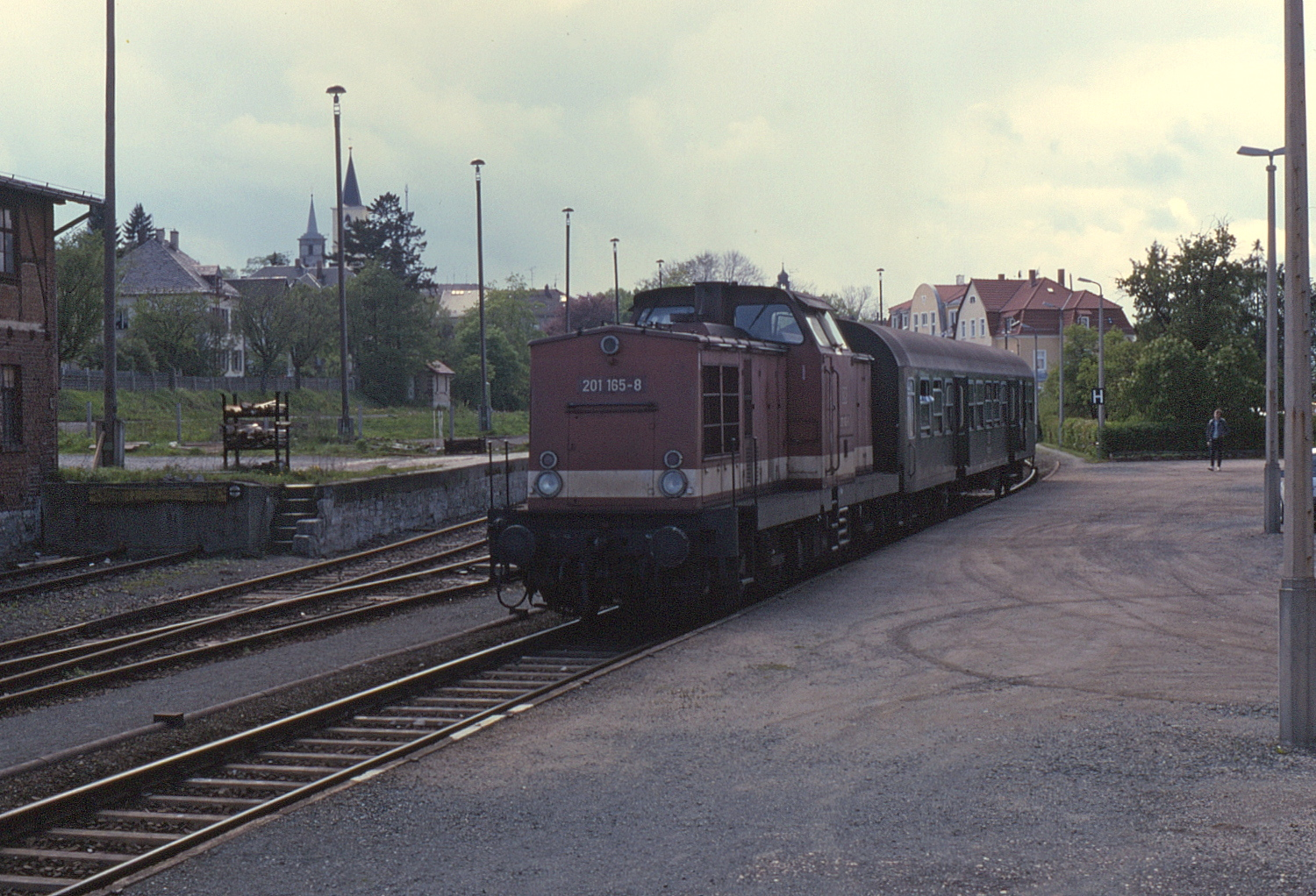 First of a batch of 4 branch line train shots in the former East Germany. Having spent many hours up and down numerous branches behind Class 201s, 202s and 204s, these are all sights that have faded away over time since the 1990s. Seen at Schleiz on 17 May 1995 is 201 165-8 about to work train 7612, 14:20 Schleiz to Schönberg (Vogtl). Schleiz was an intermediate station on the Schönberg to Saalburg line and as such the branch would be operated in two completely separate sections. Both sections of the branch had closed by 2006.